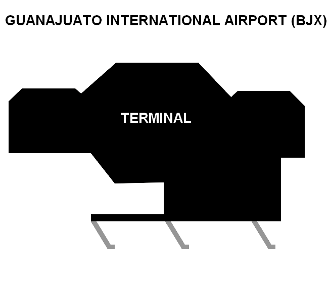 Guanajuato International Airport terminal.